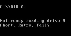 A screen capture of the infamous "Abort" prompt from MS-DOS.